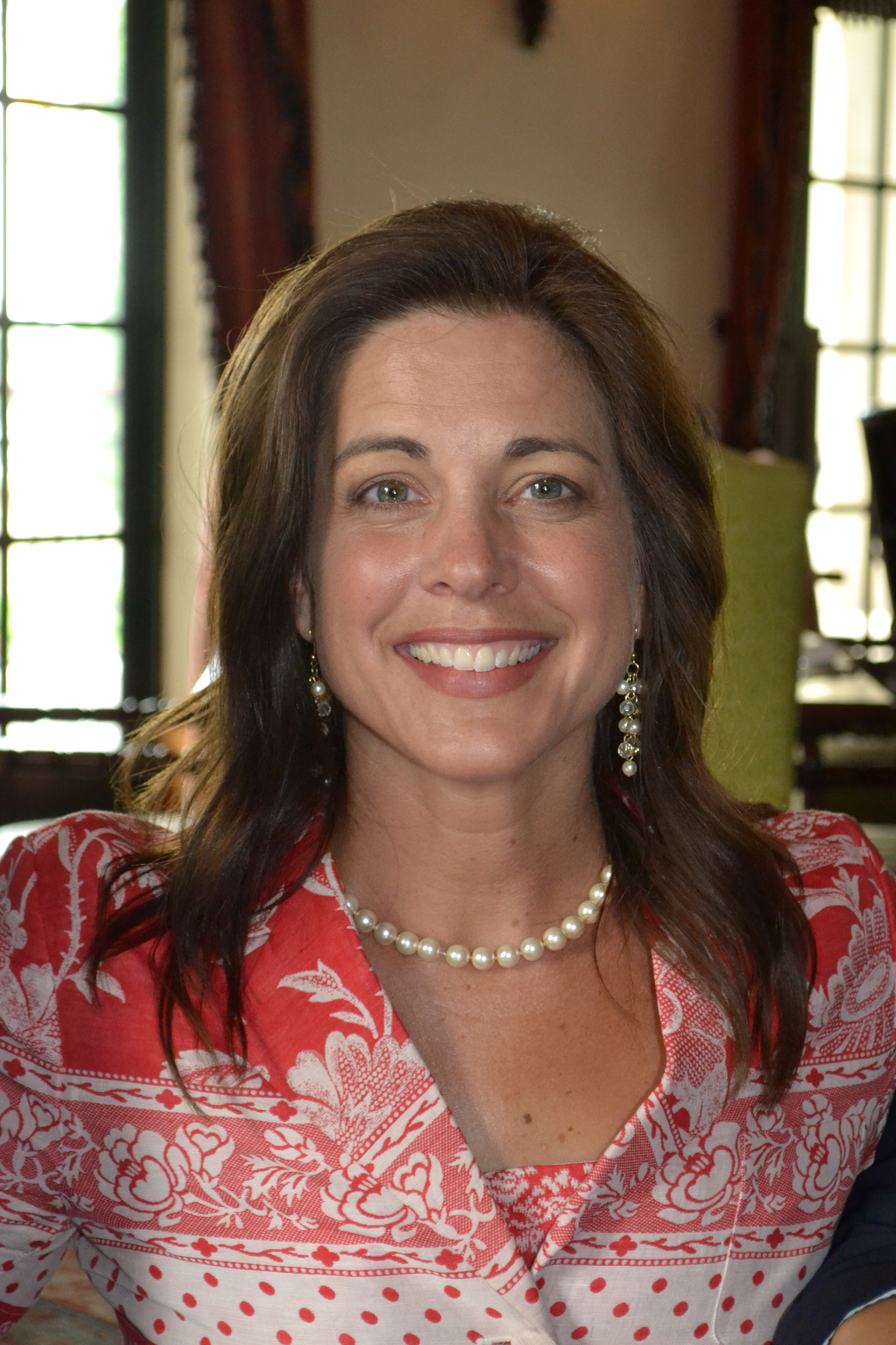 Miss America 1995 Heather Whitestone at age 39